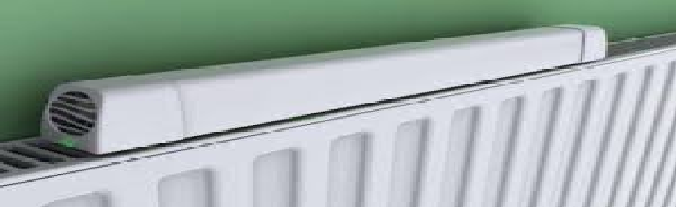 Radiator booster